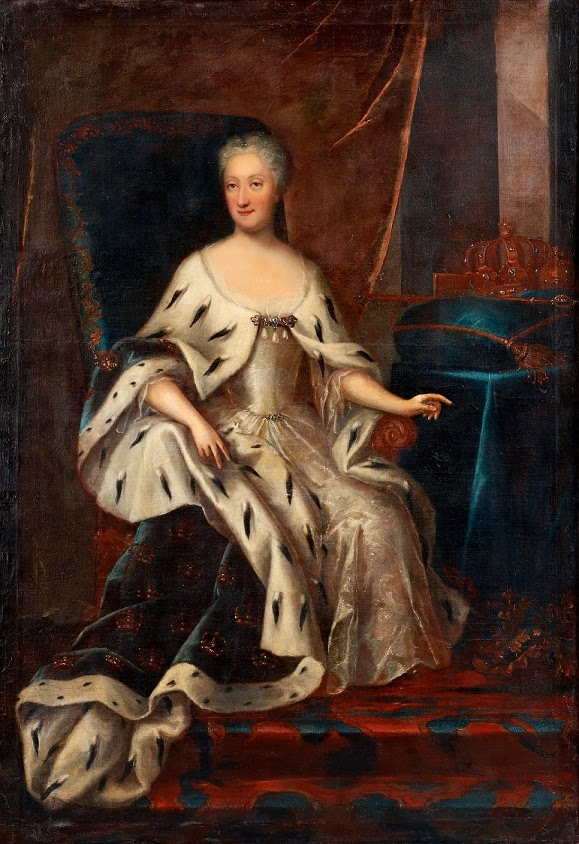 Ulrika Eleonora, Queen of Sweden